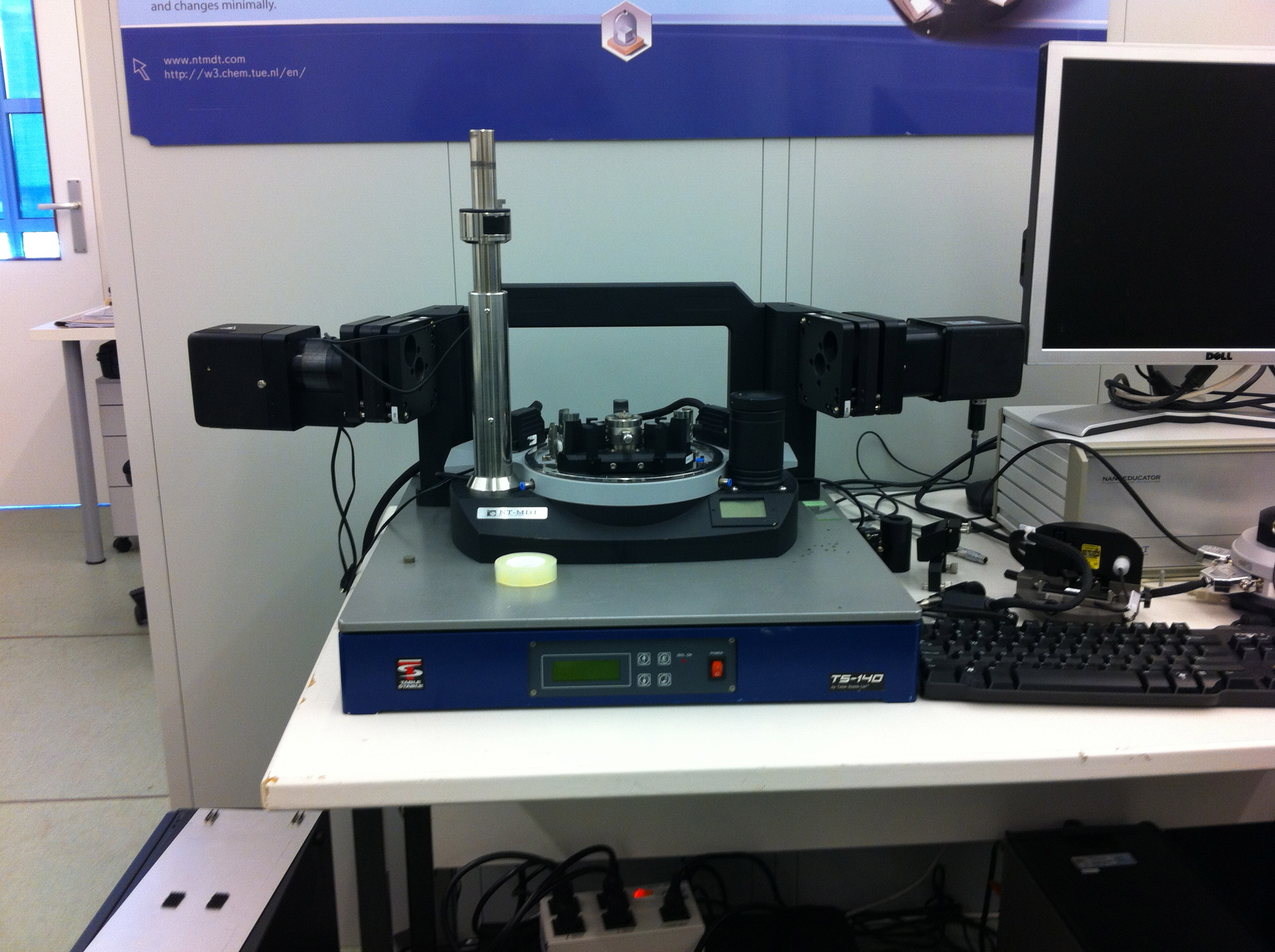 NT-MDT NTegra AFM basement on vibro-protective table